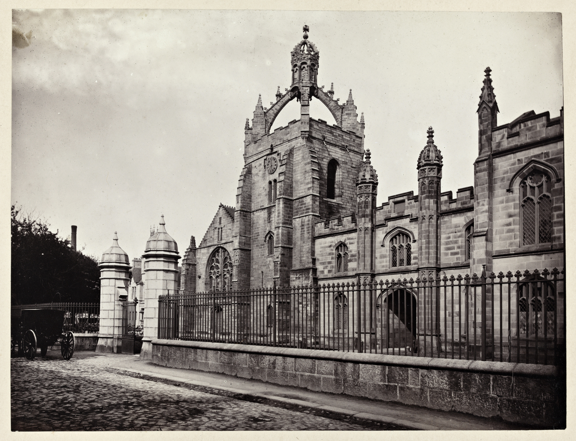 Tittel / Title: s. 5 King's College, Aberdeen Motiv / Motif: Albuminkopi Grunnlagt i 1495, nå del av University of Aberdeen. På bildet ser man "The Crown Tower" på King's College Chapel. Dato / Date: 1869 Fotograf / Photographer: Edward Backhouse Mounsey (1840-1911) Sted / Place: Skottland, Aberdeen Eier / Owner Institution: Nasjonalbiblioteket / National Library of Norway Lenke / Link: Bildesignatur / Image Number: bldsa_Alb_BH008